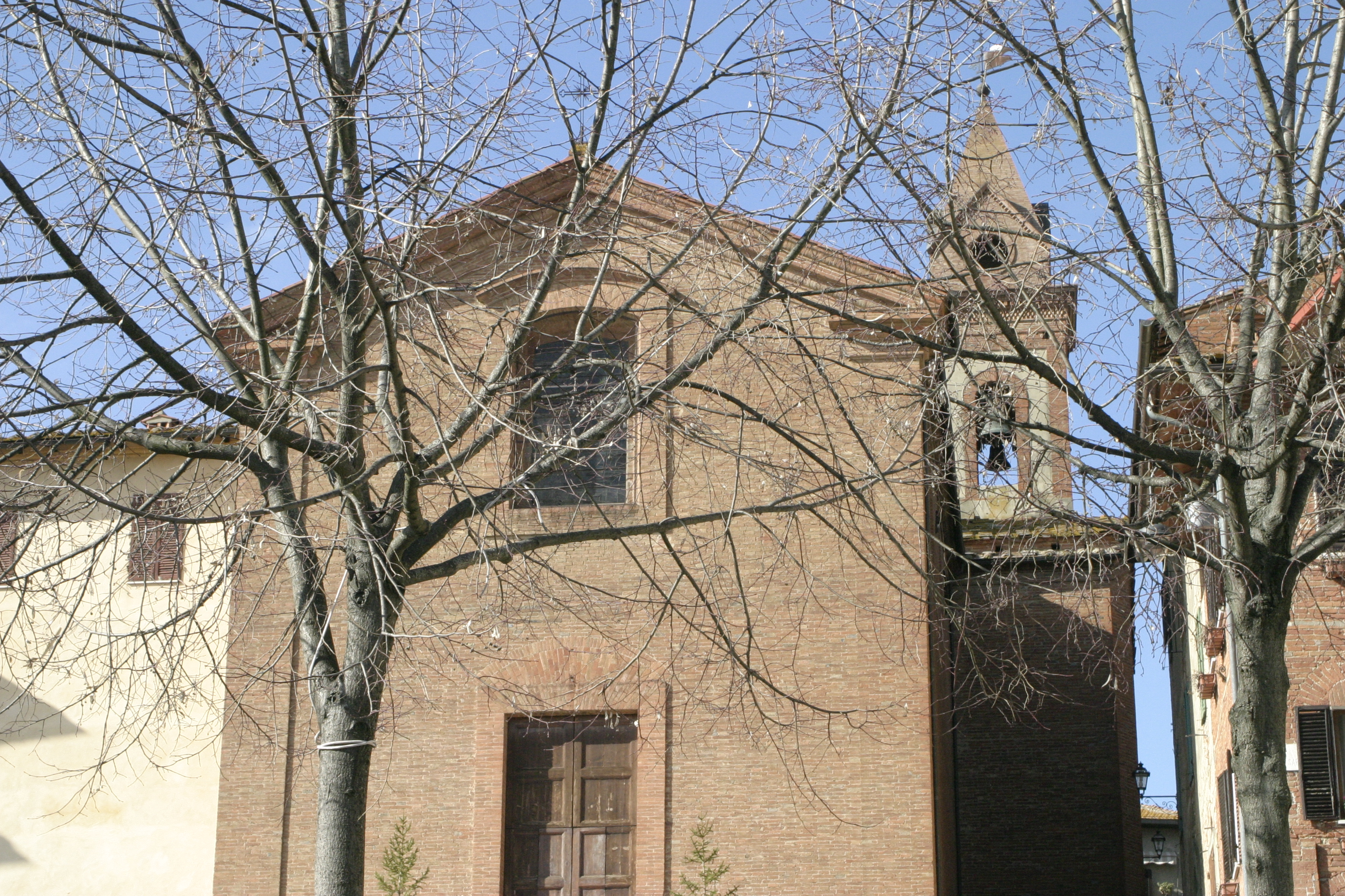 Church of San Cristoforo, Bettolle (Sinalunga, Siena, Tuscany, Italy)